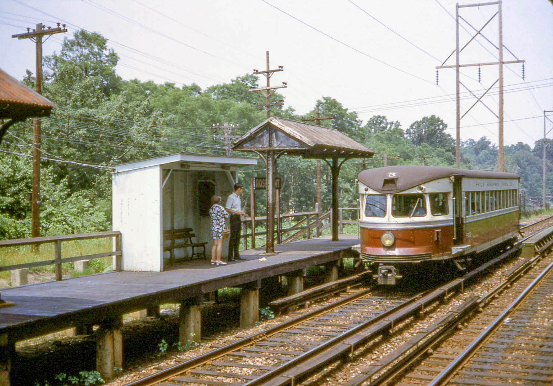 Brill "Bullet" car 203 arriving at Rosemont station on the Norristown High-Speed Line of the Philadelphia Suburban Transportation Co. (ex-Philadelphia & Western Railroad) in June 1968. This station was renamed "Roberts Road" in 2010.